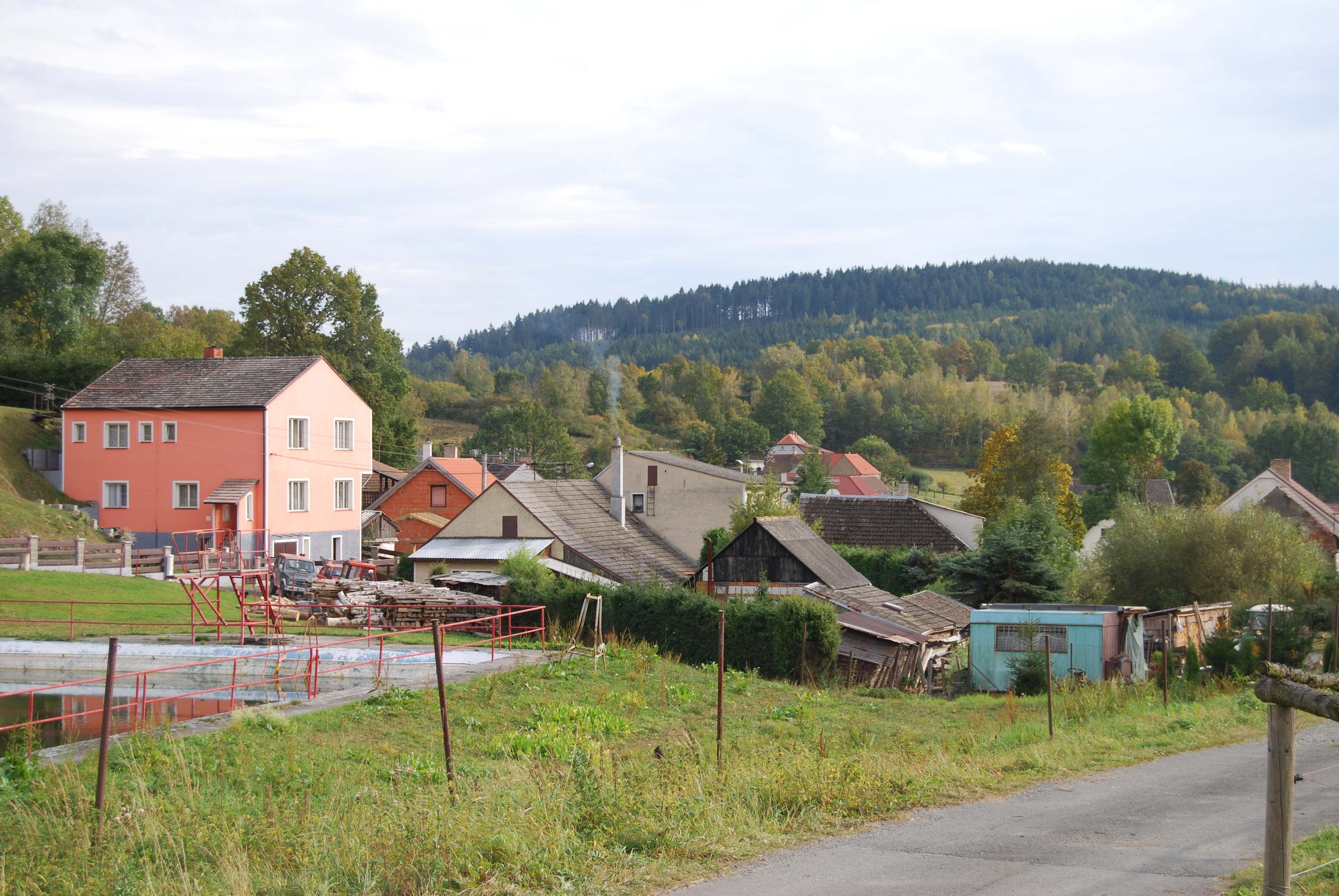 Čmelíny village in Plzeň-jih District. Czech Republic.